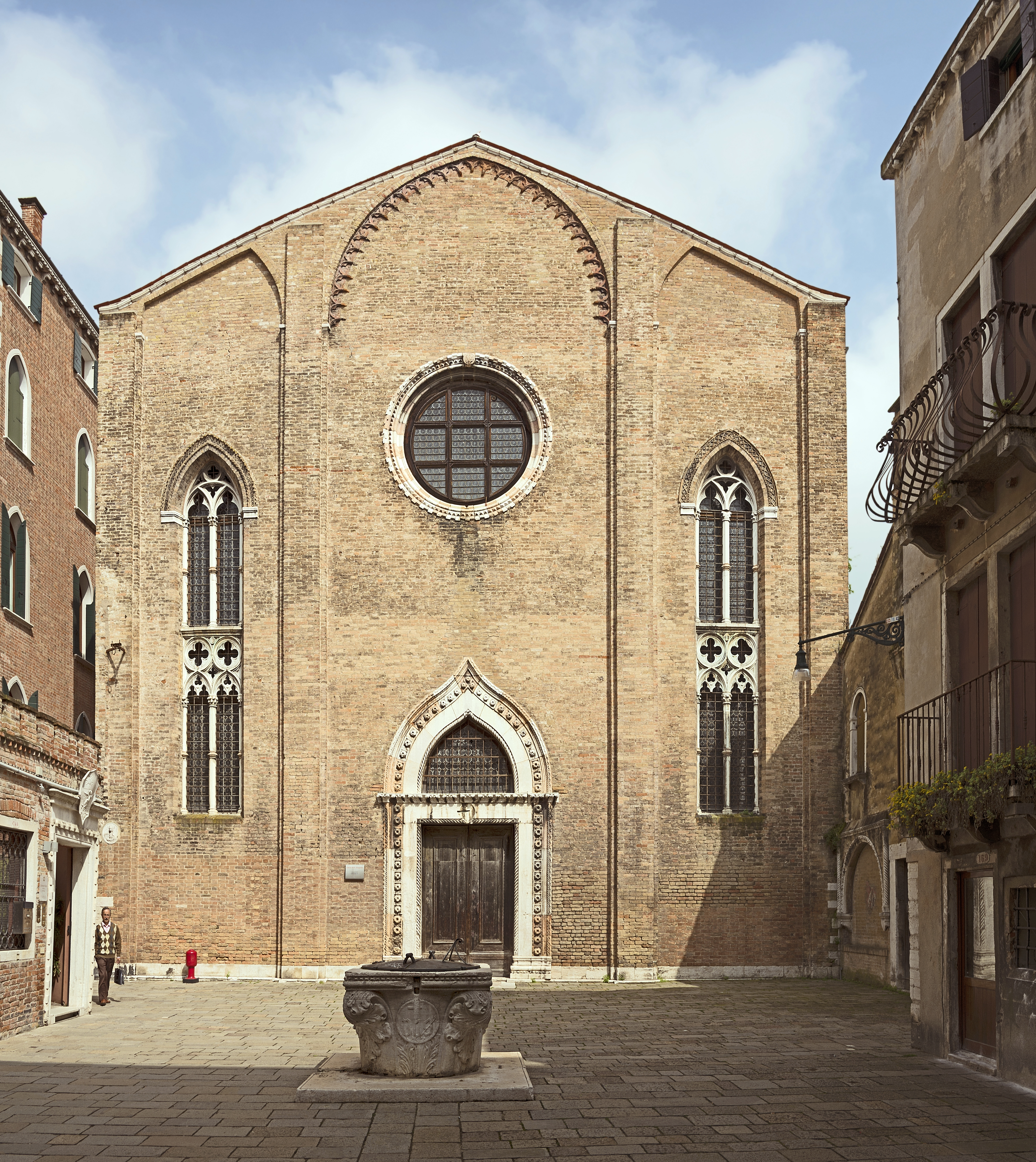 Church San Gregorio, Venice. Facade on Campo San Gregorio.